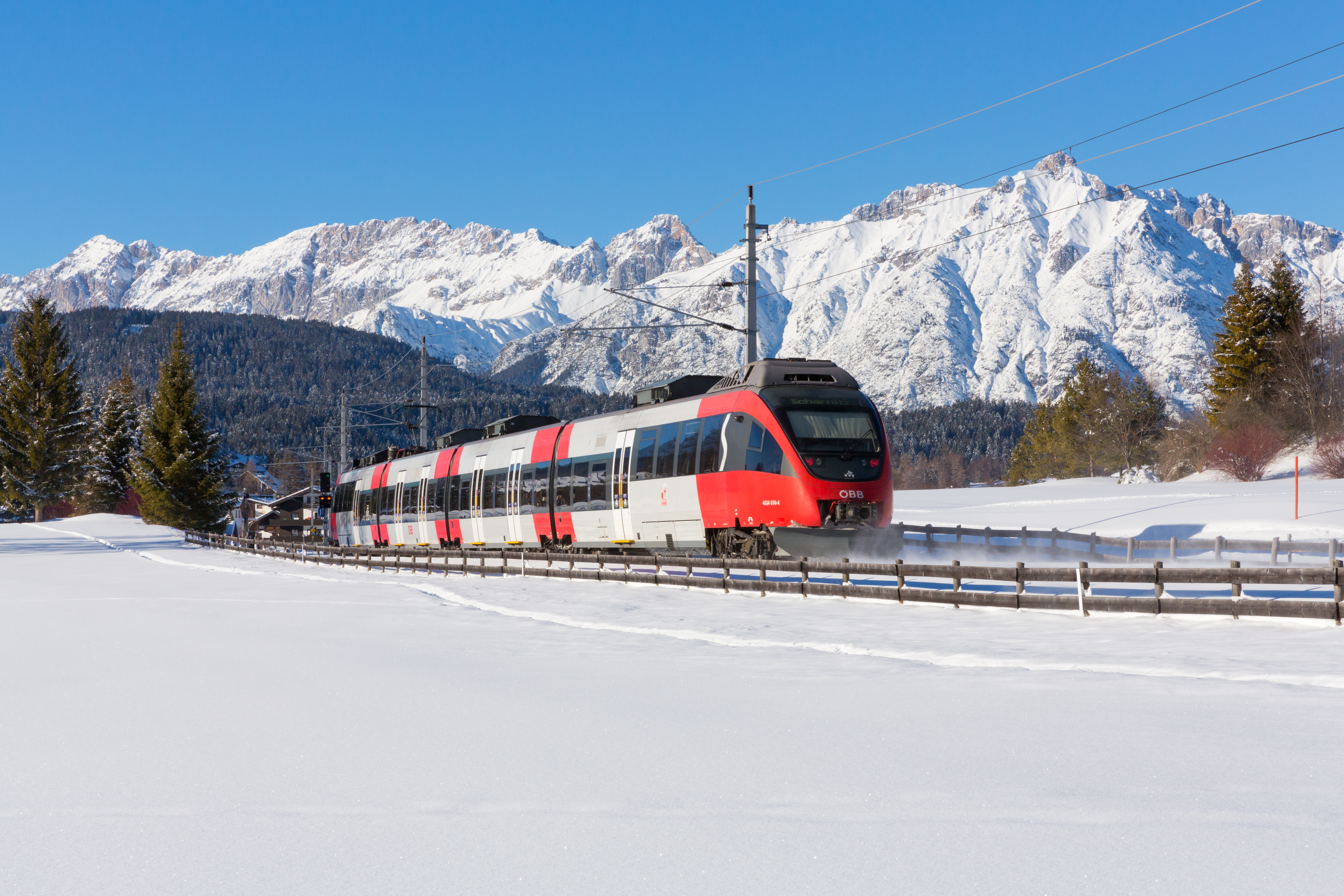 A regional train approaches the southern home signal of Seefeld.